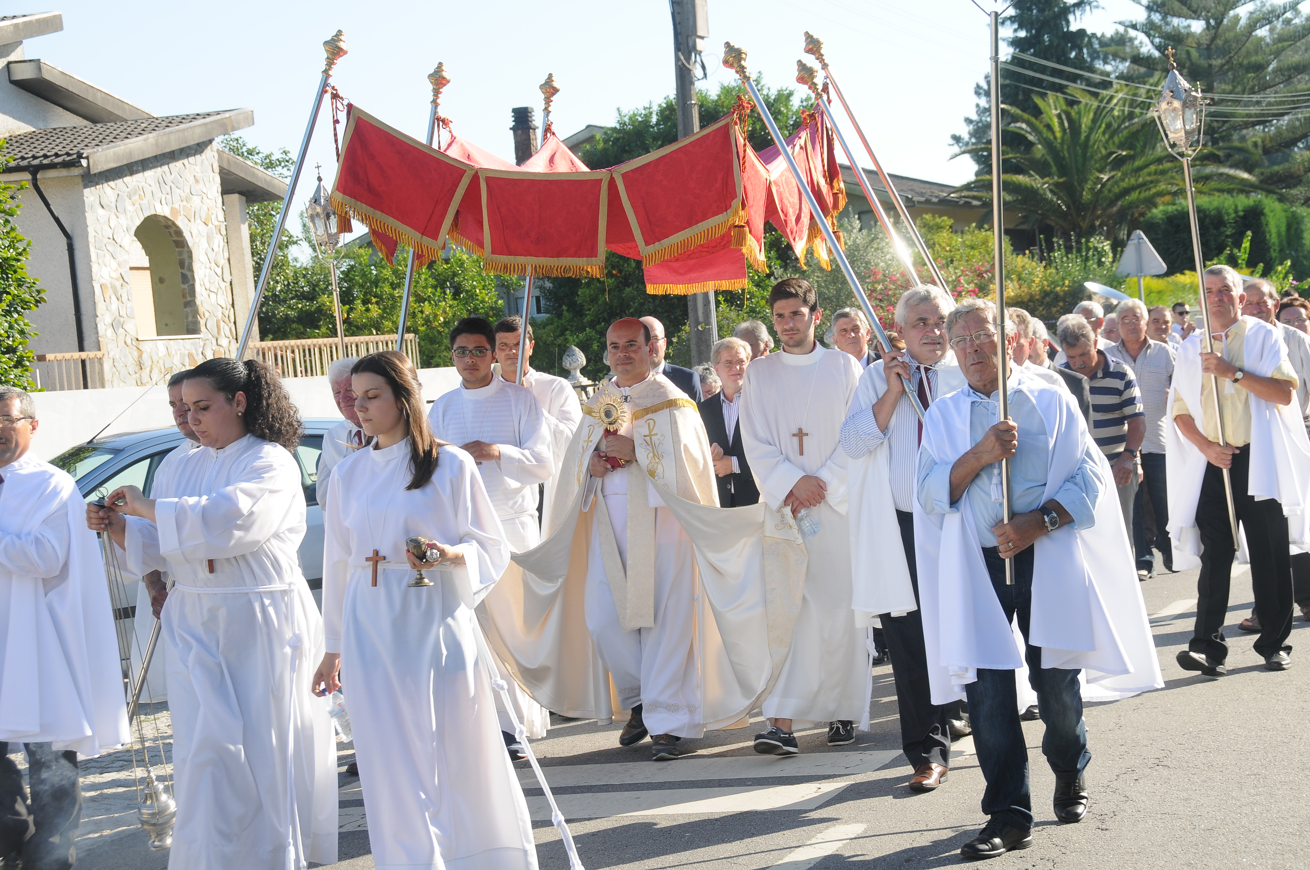 Procession in Figueiredo, Amares, Portugal